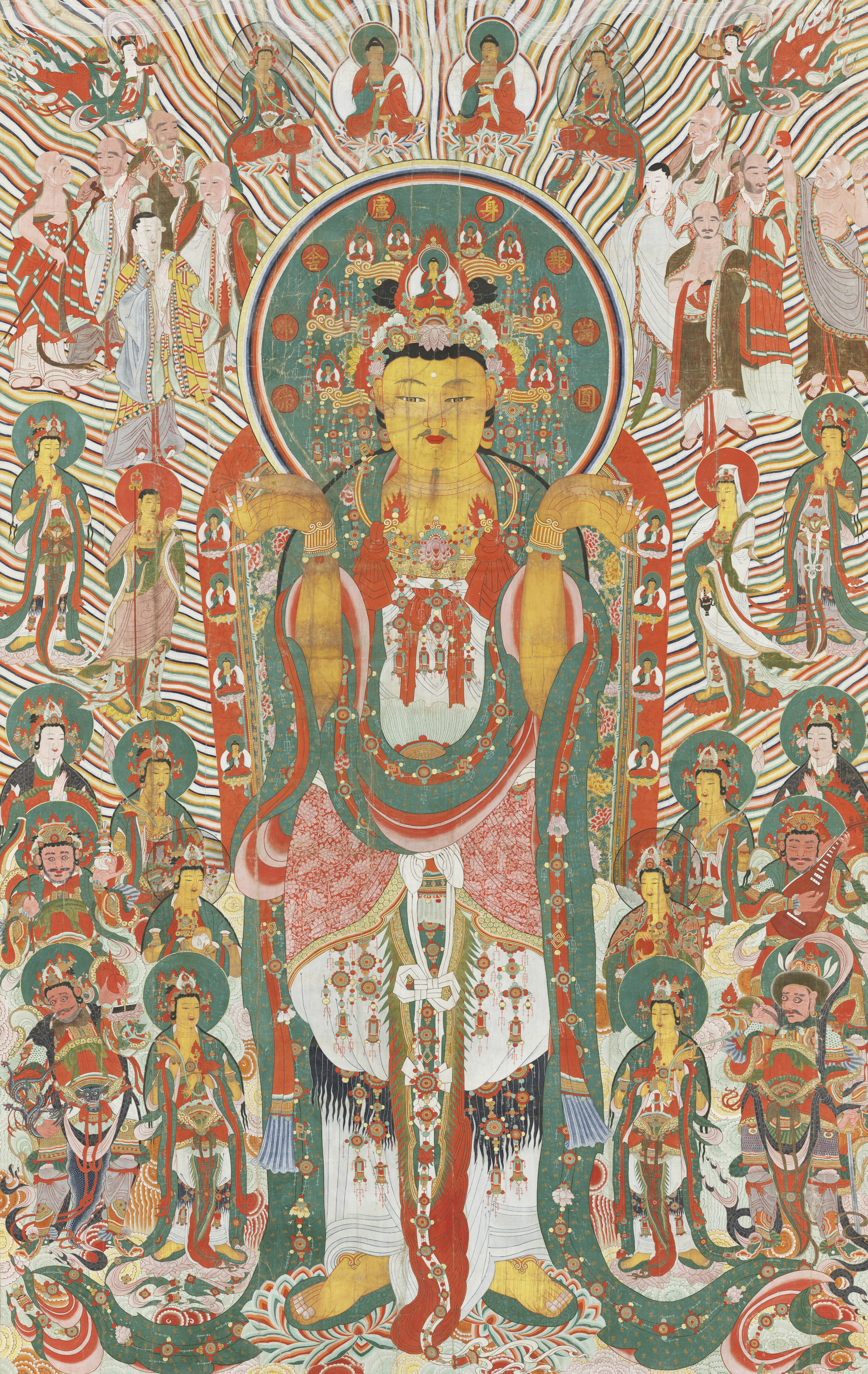 Hanging Painting (for Outdoor Rite) of Nosana Buddha at Sinwonsa temple in Gongju, Korea